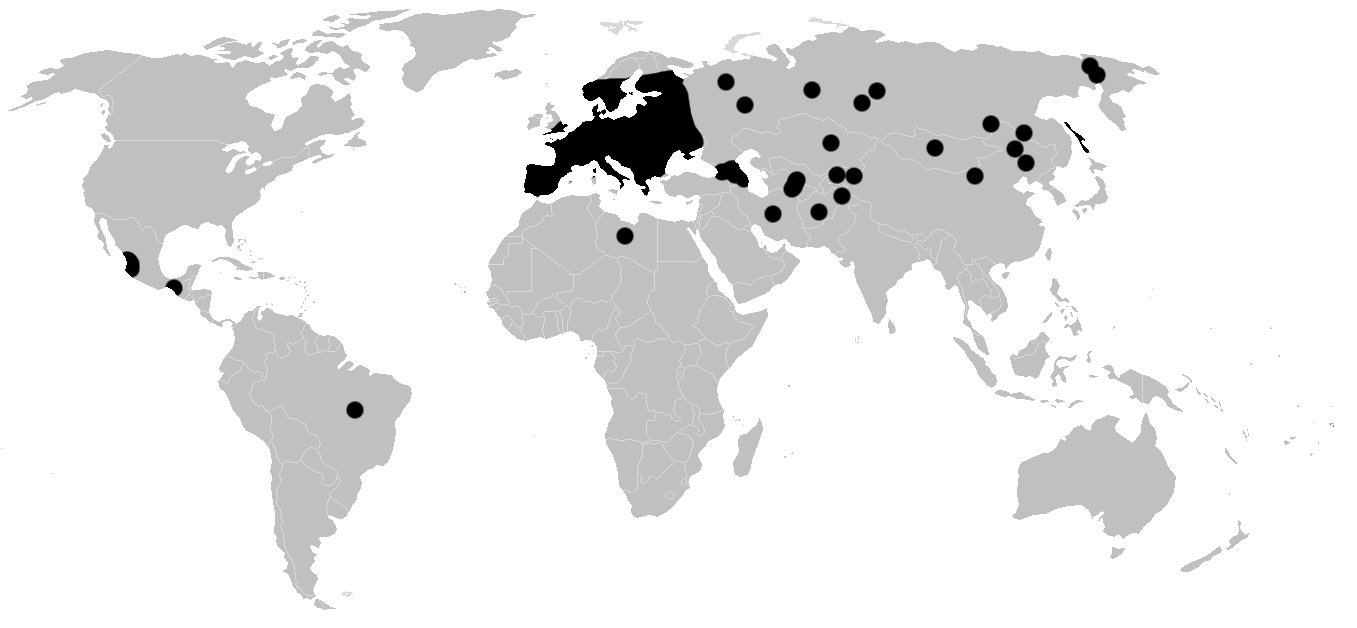 Known world distribution of Evarcha arcuata, after data from British Arachnological Society